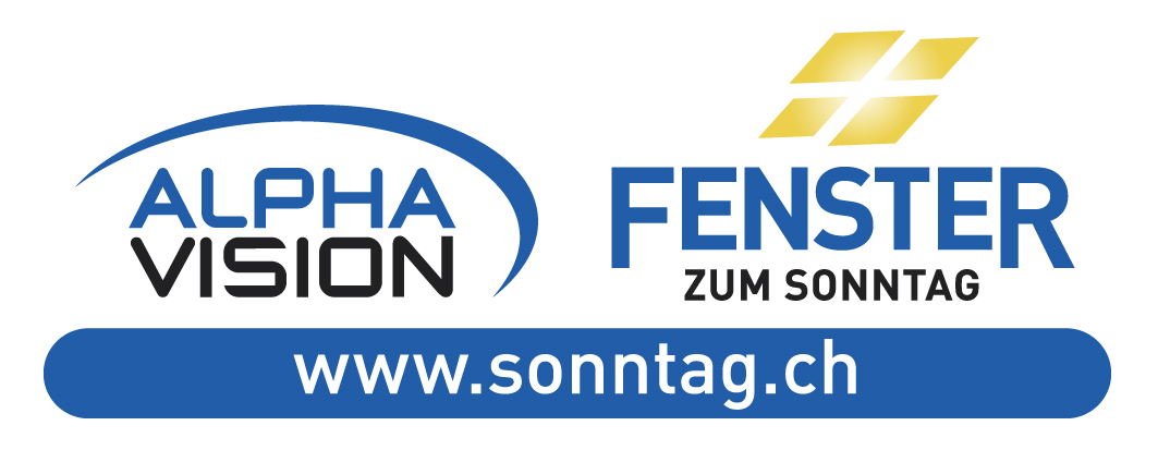 Logotype ALPHAVISION-FENSTER ZUM SONNTAG